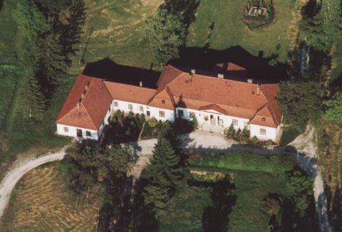 Vilmány, Hungary, aerialphotgraphy